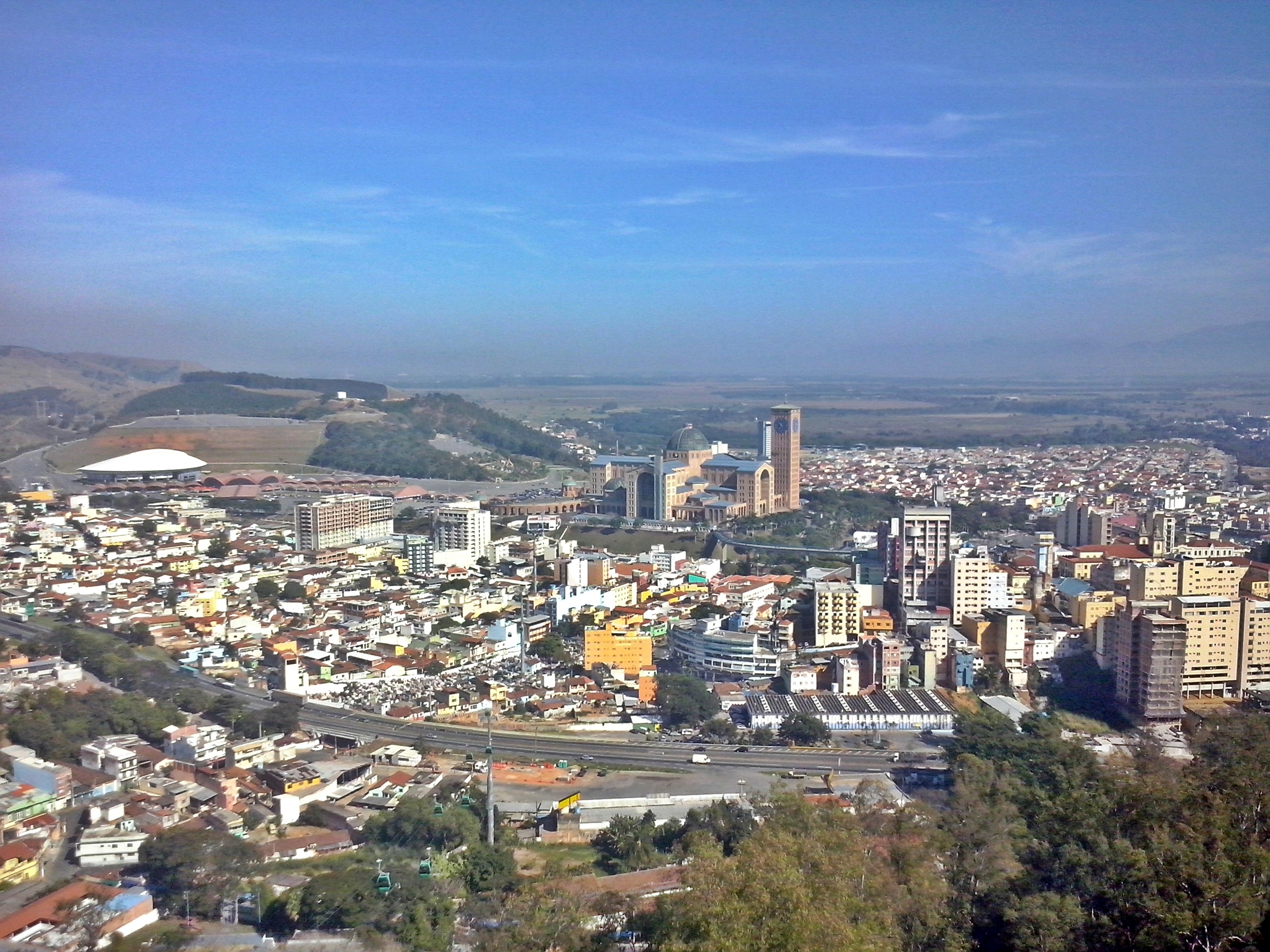 View of Aparecida, São Paulo, Brazil, seen from of the Cruzeiro Overlook.